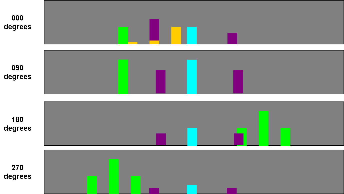 Spectrum analyzer displays from directional antennas, with signals of interest plus irrelevant signals